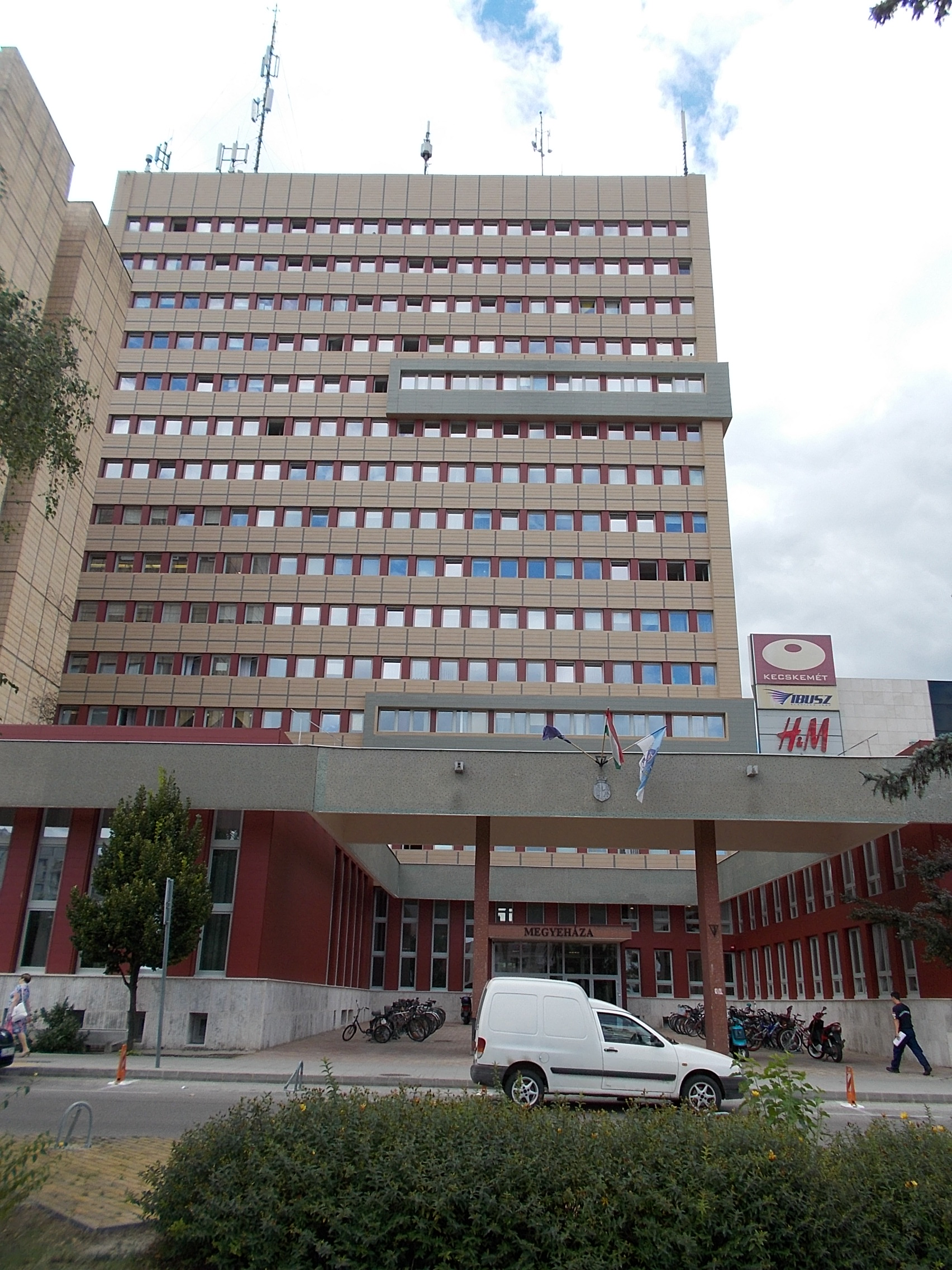 County Hall of Bács-Kiskun County - Deák Ferenc Sq., Belváros, Kecskemét, Bács-Kiskun County, Hungary.